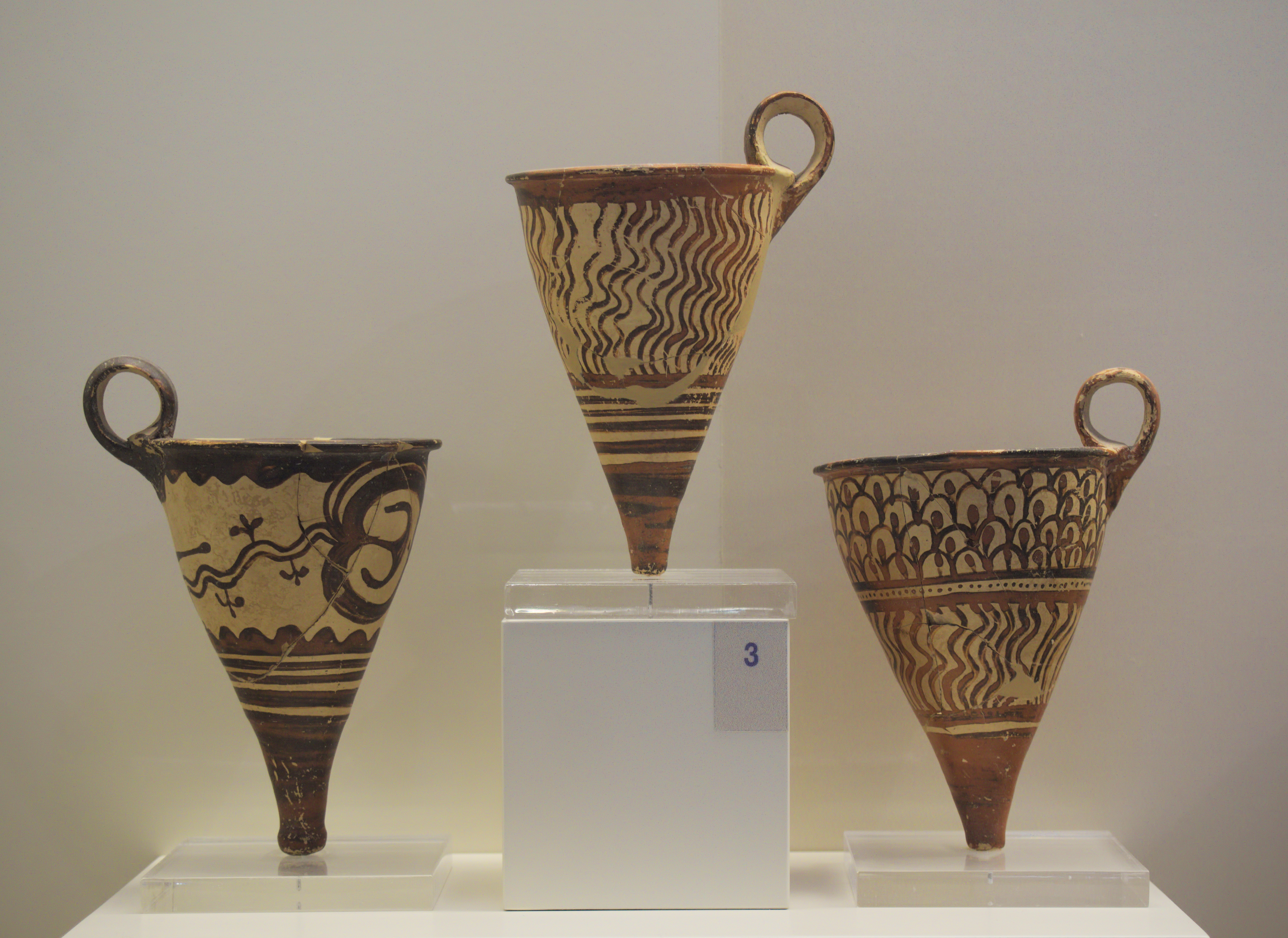 Conical rhyta from graves ΣΤ and B, Evaggelistria, Nafplio. 1500-1450 BC.